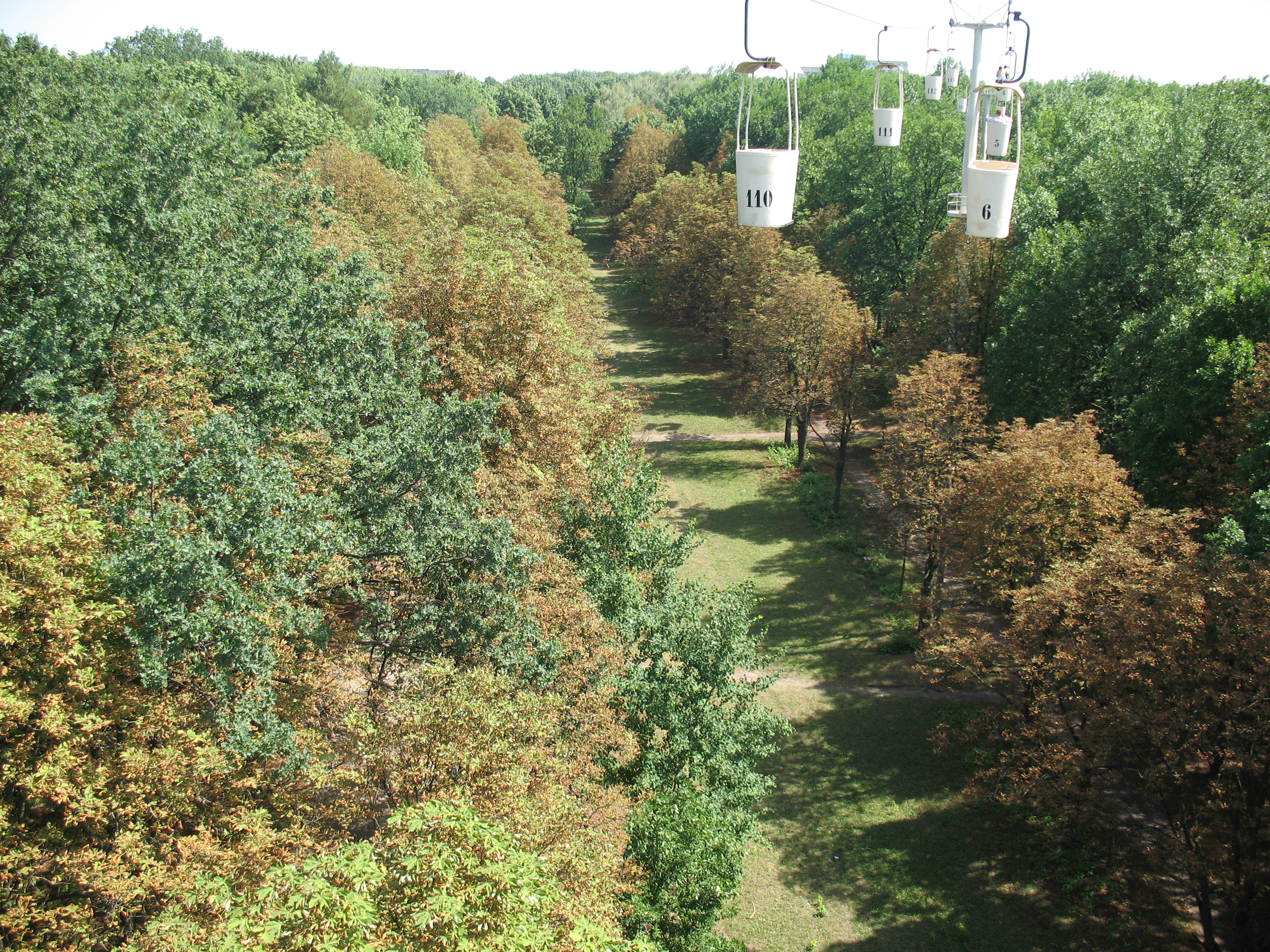 Drought in Kharkov City. 2010 Northern Hemisphere summer heat. July 31, 2010